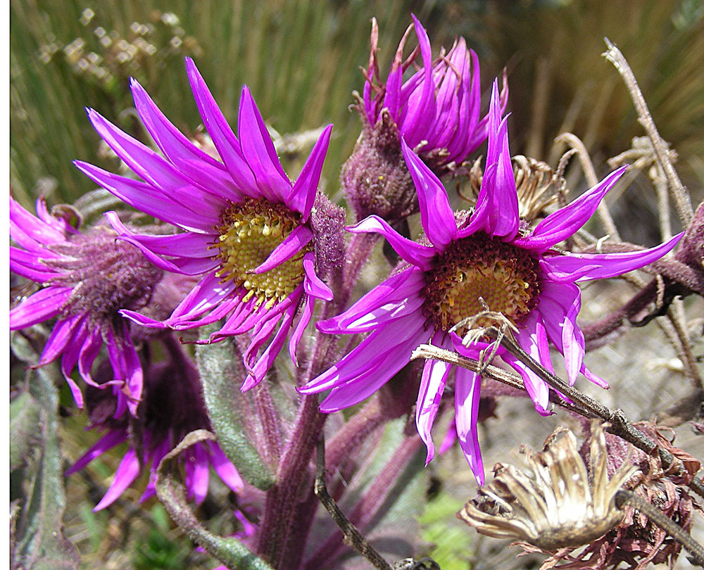 From a high paramo on Volcan Ruiz, Colombia. In context at